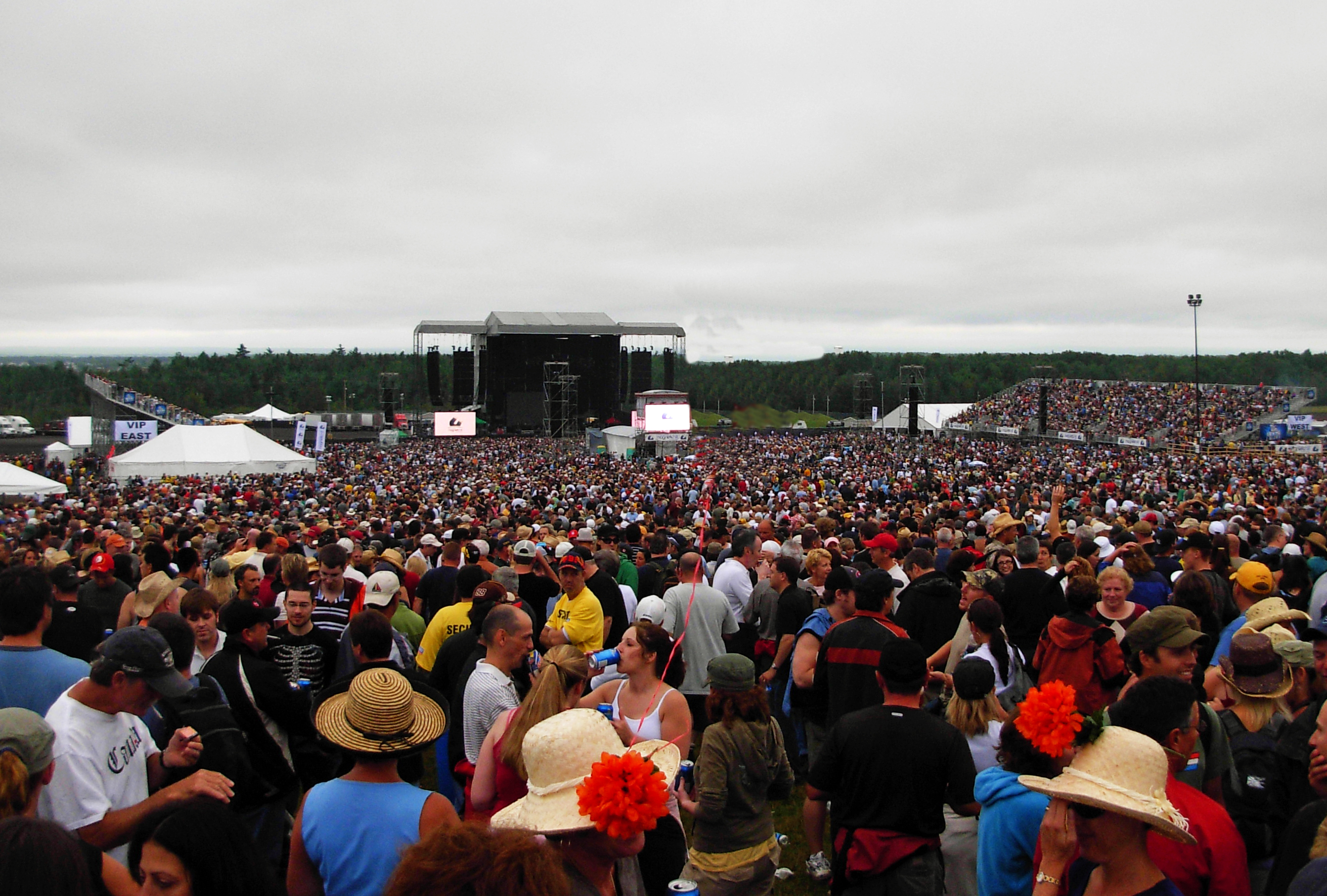 The crowd of 55,000 at the Magnetic Hill Concert Site in Moncton in August of 2008 for The Eagles.